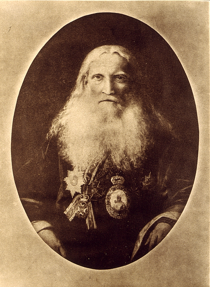 Bishop Porphiry Uspenski (1804-1885)